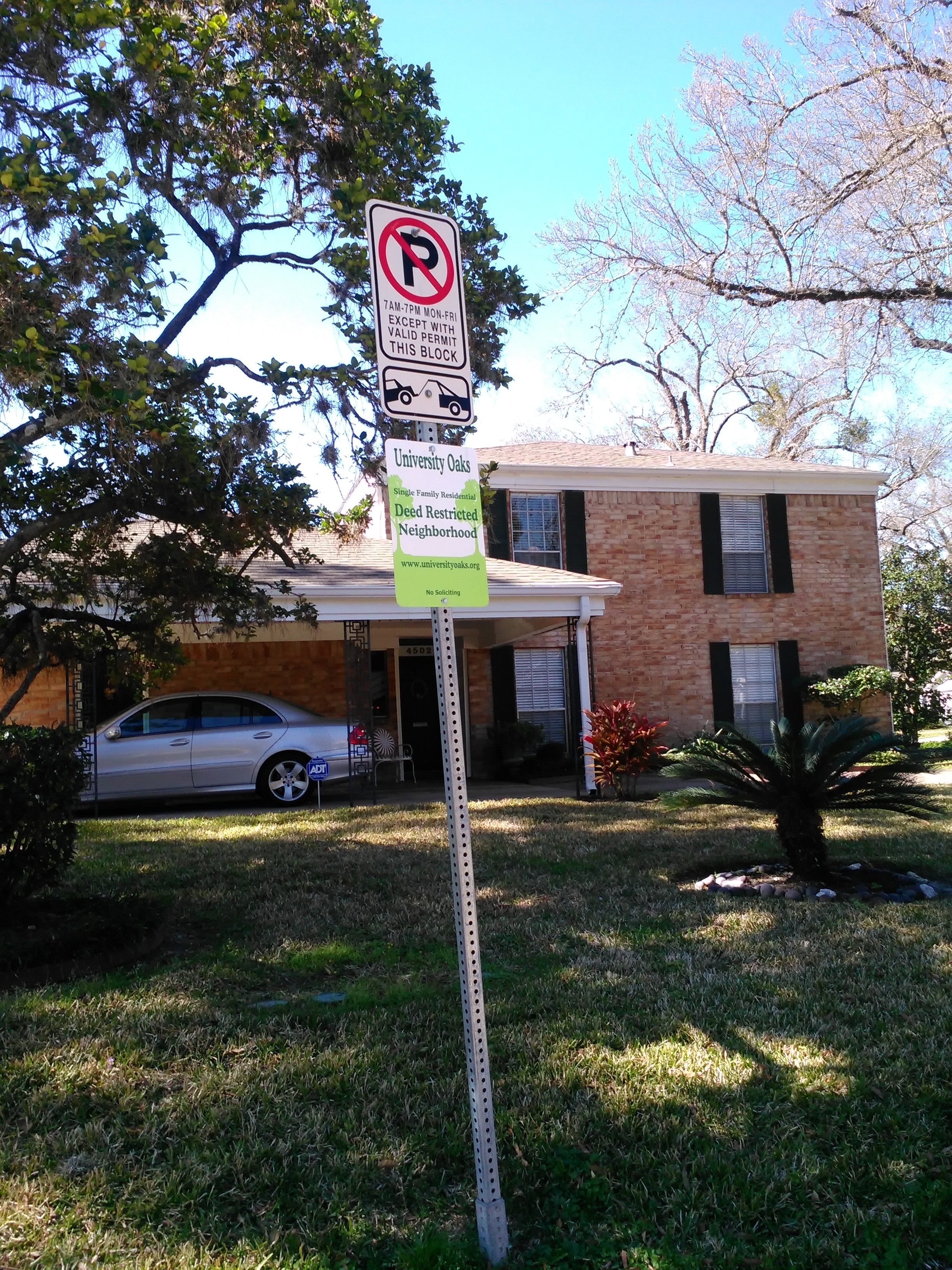 University Oaks entrance signs